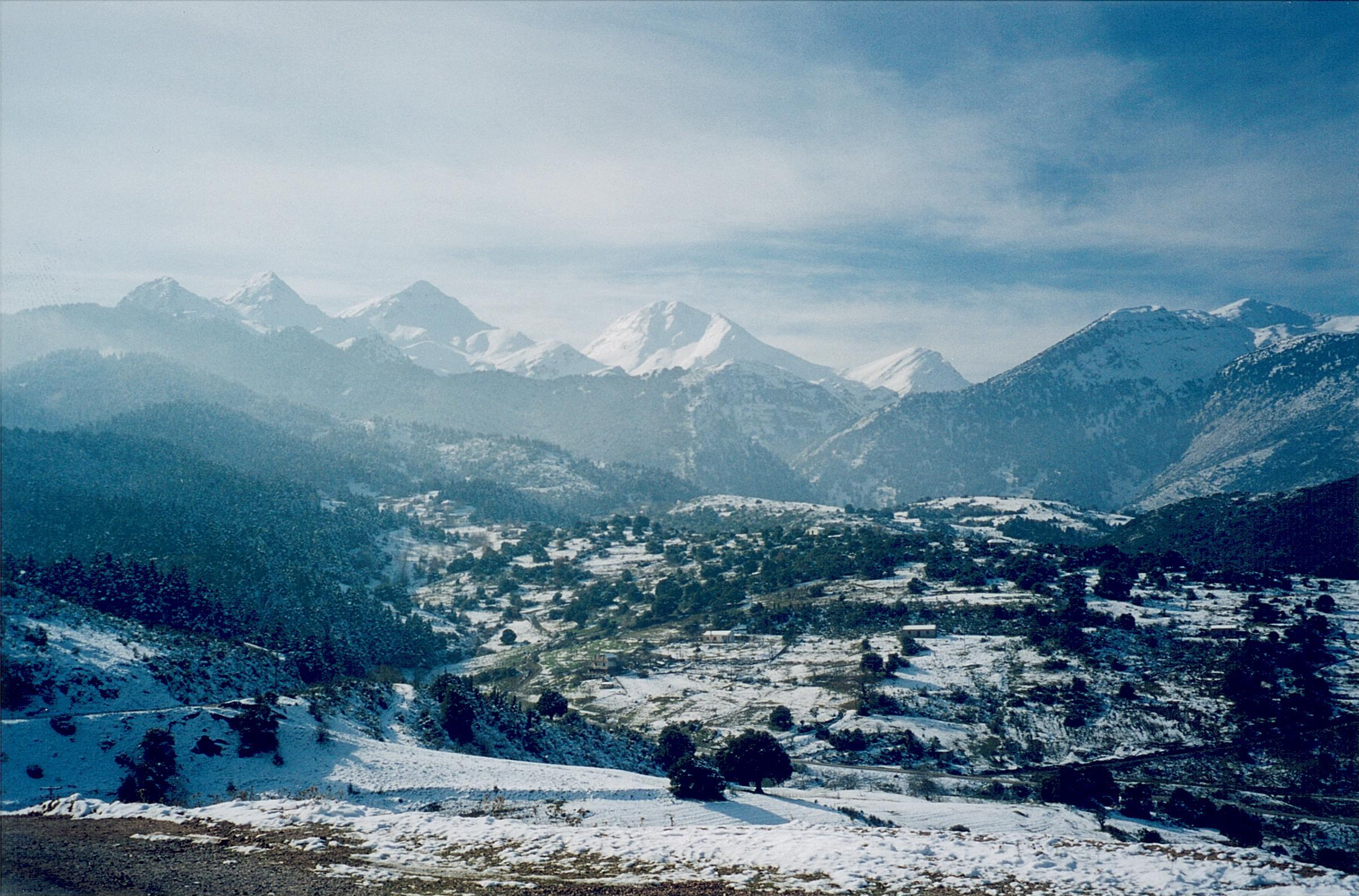 The snow-capped summits of Erymanthos